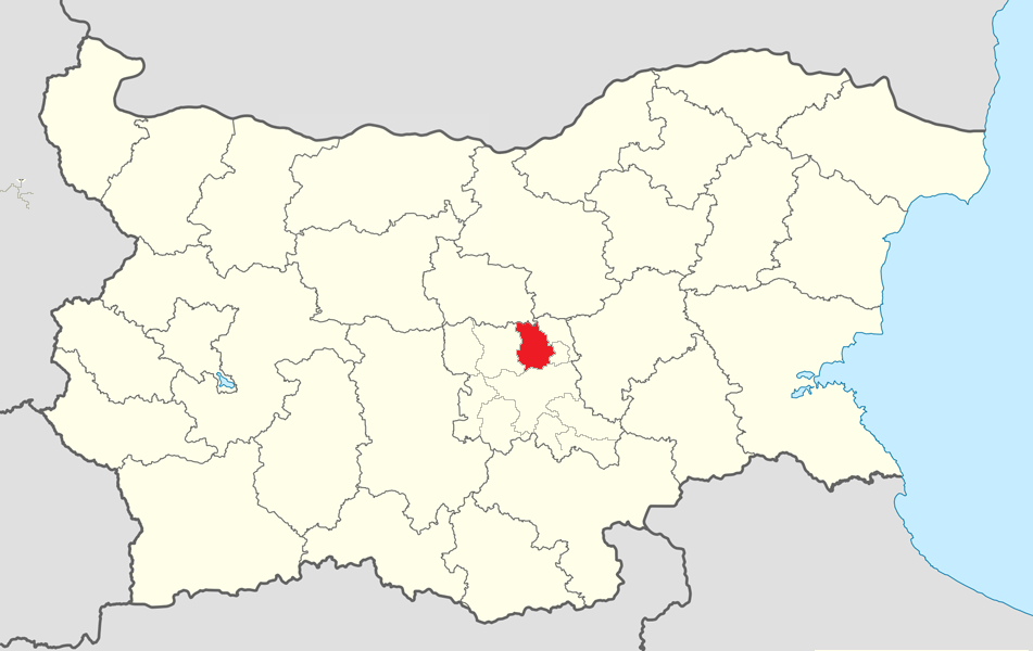 Location map of Maglizh Municipality within Bulgaria and Stara Zagora Province